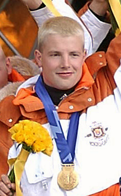 Bobsled team members from Germany-2 (orange and white), USA-1, (center row in blue) and USA-2 wave to the crowd after receiving their newly awarded medals during a ceremony in Salt Lake City for the men's four-man bobsled event in the 2002 WINTER OLYMPIC GAMES. Here cropped: André Lange/Germany